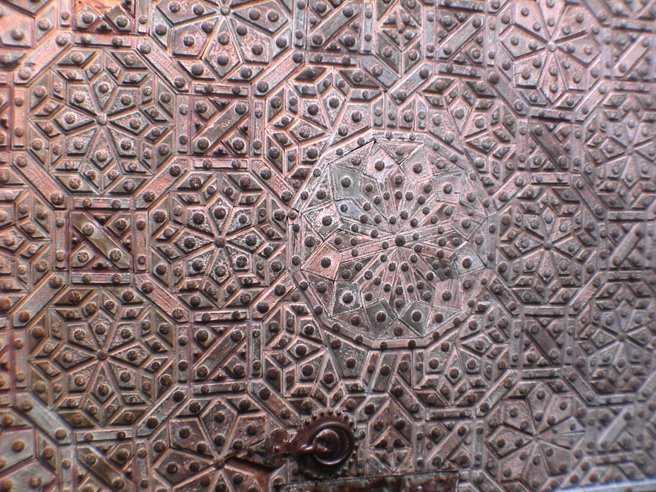 old door in Saint Stepanous Cathedral